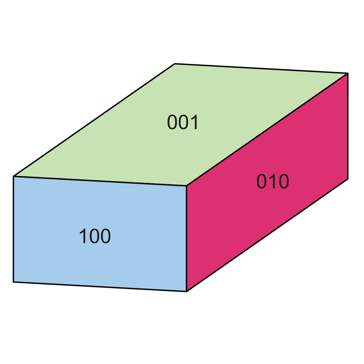 Drawing of a equant, blocky botallackite crystal; reference: W. Krause (2006), Powder Diffraction vol. 21, page 59